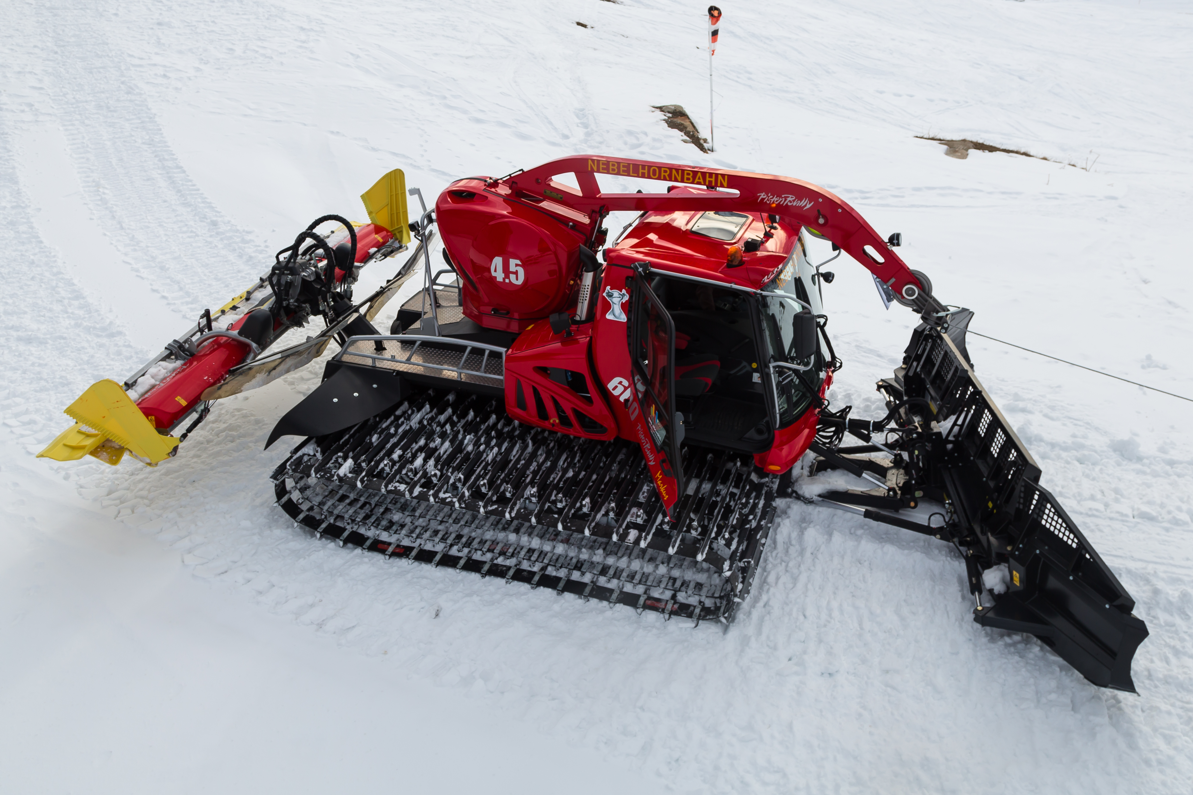 Oberstdorf, germany: Snow groomer at the upper station of Nebelhornbahn, next to Edmund-Probst-Haus